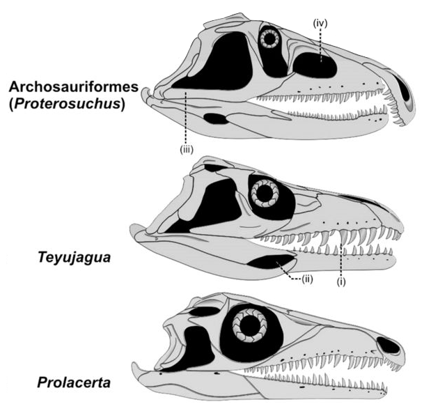 Sequence of acquisition of archosauriform features among the archosauromorphs Prolacerta, Teyujagua and the basal archosauriform Proterosuchus. (i) serrated teeth; (ii) external mandibular fenestra; (iii) closed lower temporal bar; (iv) antorbital fenestra. Not to scale.